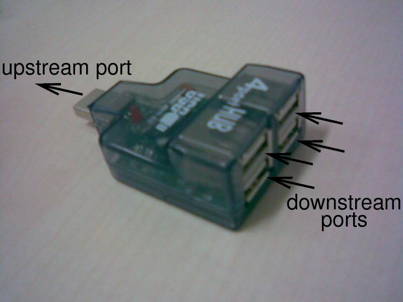 An USB hub; upstream and downstream ports marked